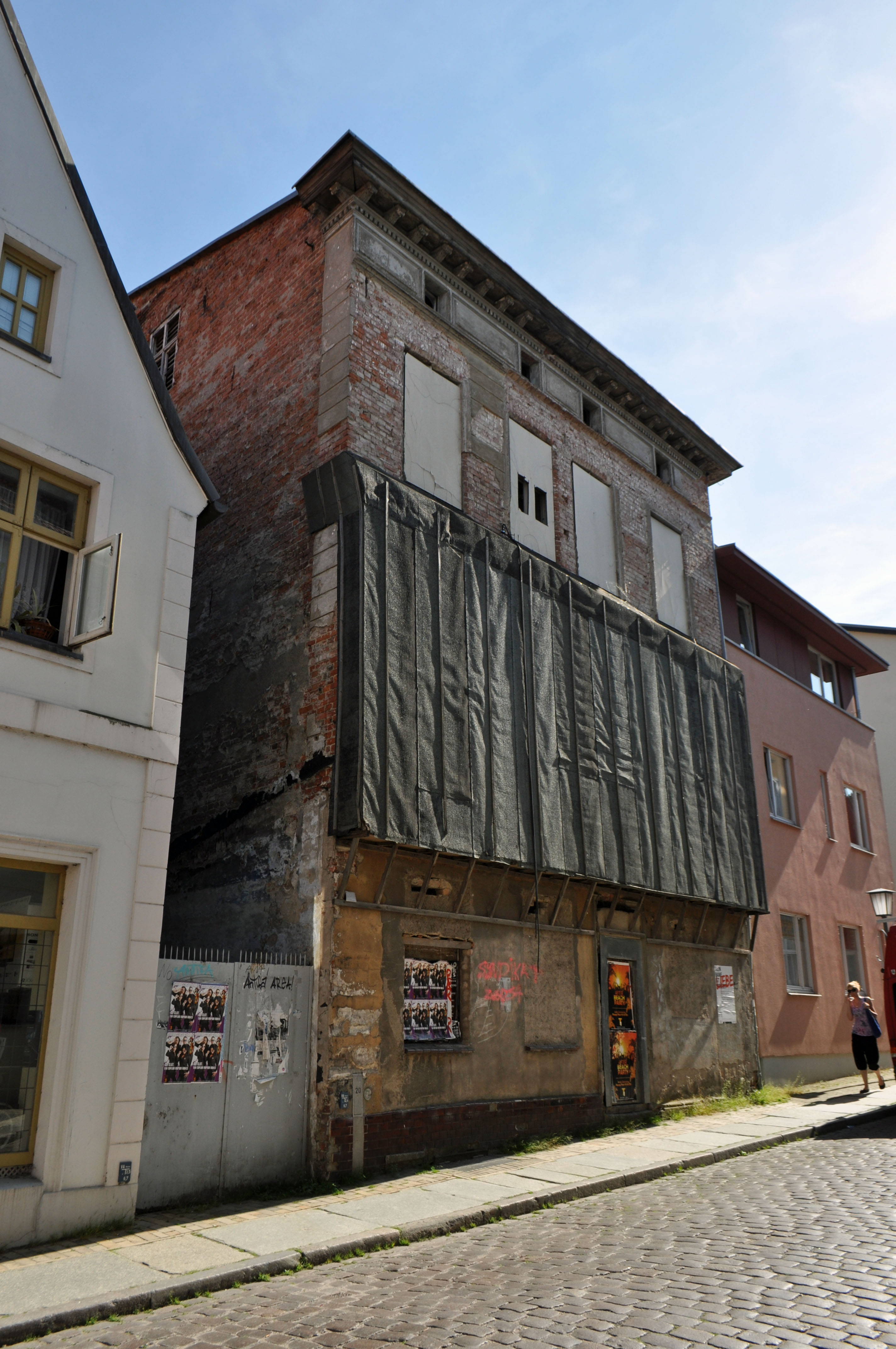 Gebäude in Stralsund, siehe Dateiname This is a photograph of an architectural monument.